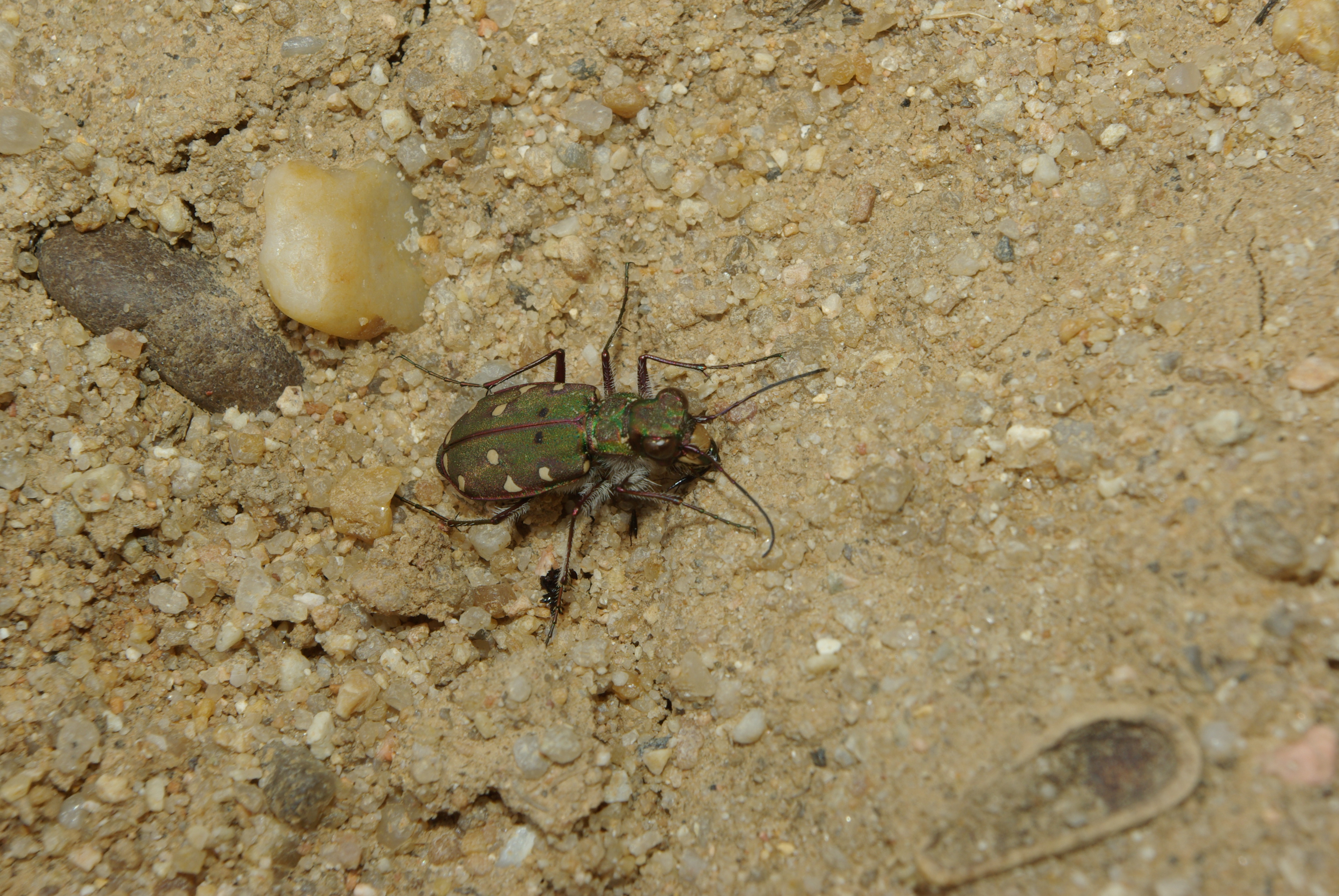 Cicindela maroccana. Valdestillas (Province of Valladolid, Spain).